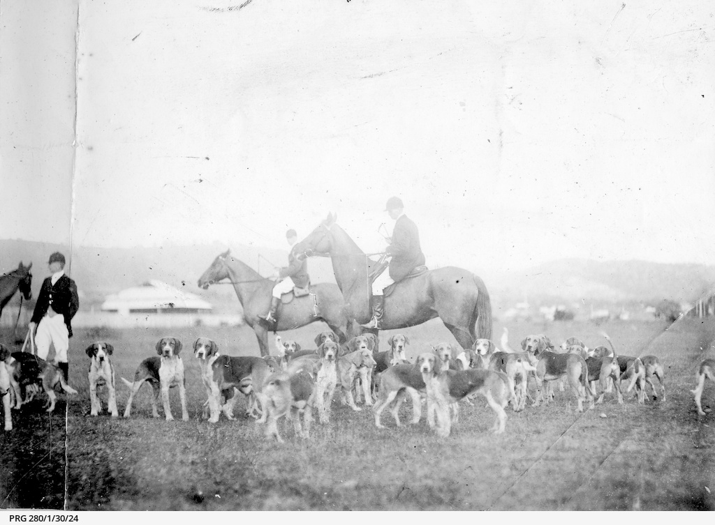 Three members of the Adelaide Hunt Club out with the hounds in South Australia